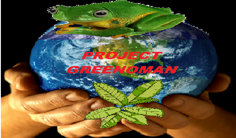 This is the logo of Project GreenOman